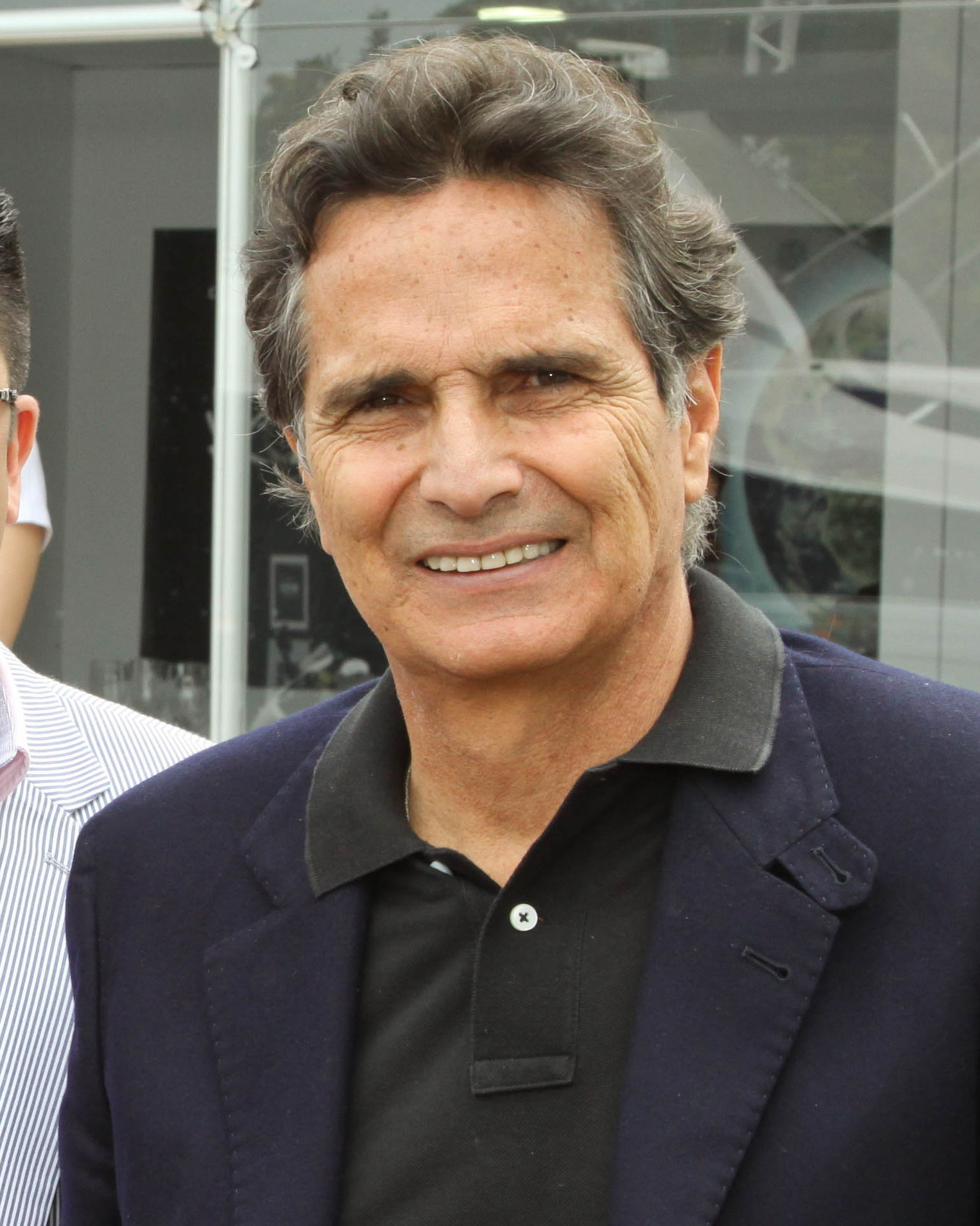 The former Formula One driver and three time world champion Nelson Piquet.